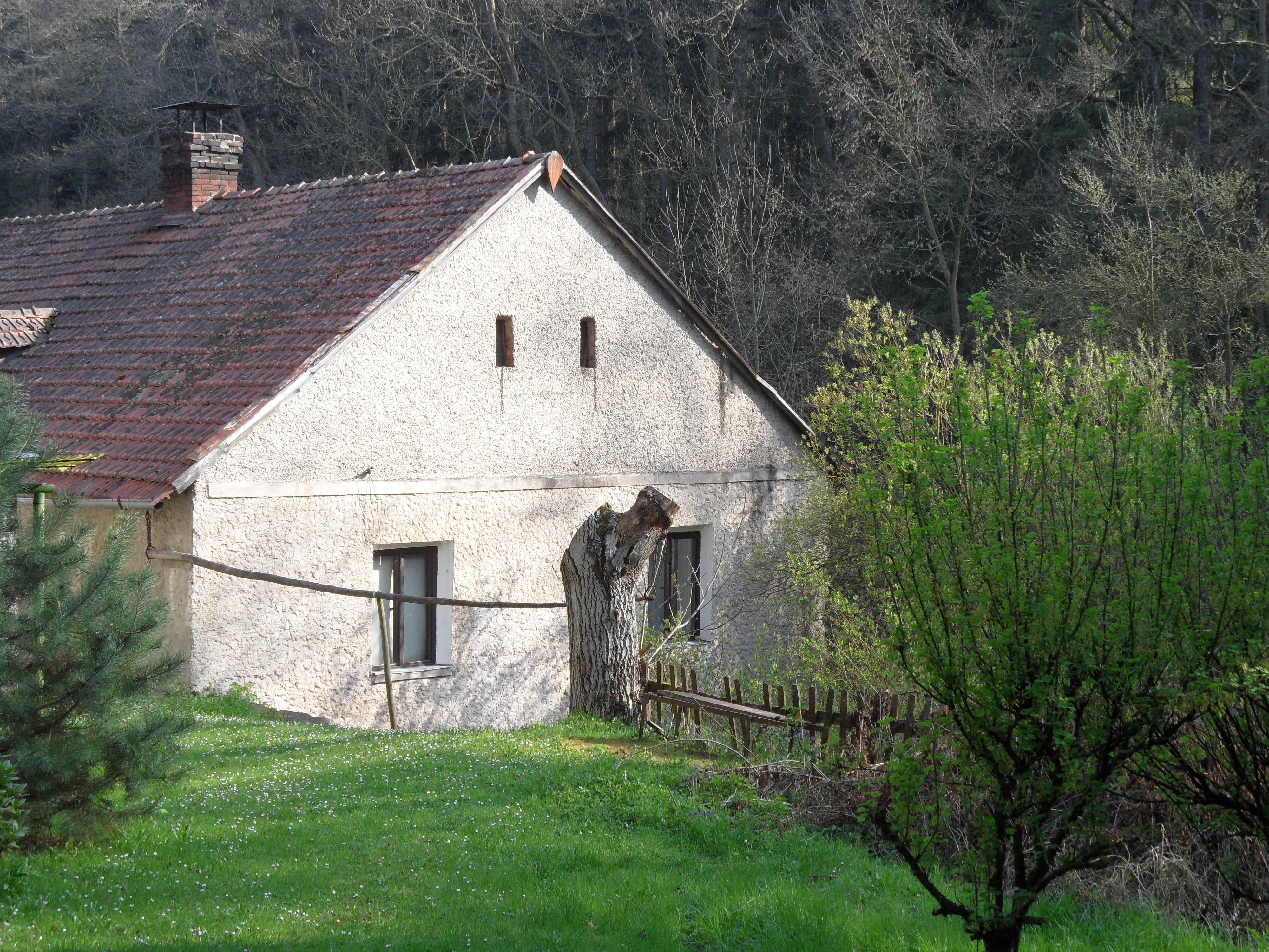 Medenický potok H4. Karaskův's Water Mill, Kutná Hora District, the Czech Republic.